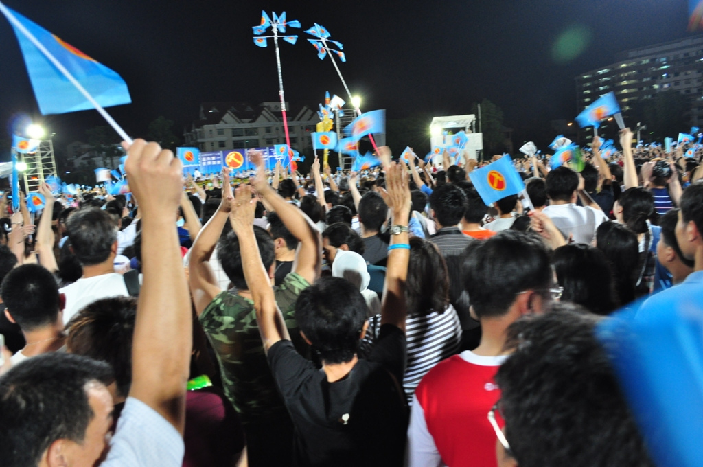 People waving flags at a Workers' Party of Singapore rally at Serangoon Stadium for the Singaporean general election, 2011.